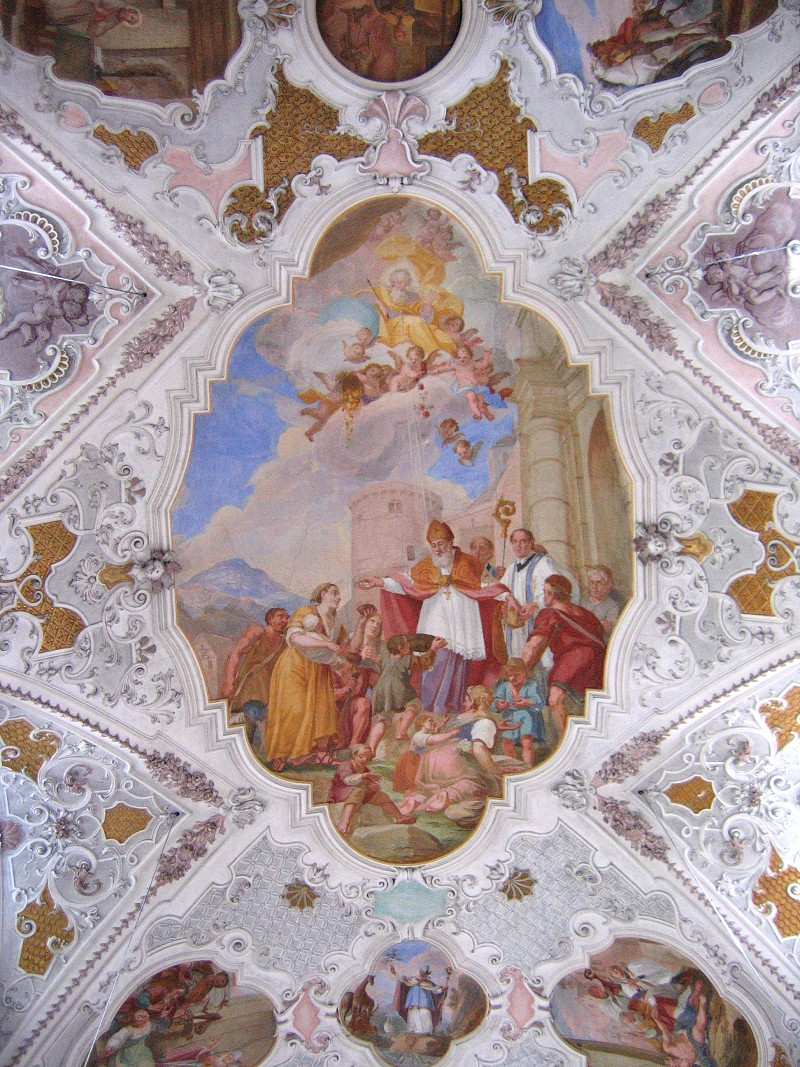 Fischbachau, St Martin Parish Church (until 1803 Church of the Benedictine provosty) from south-east. Fresco of central nave vault.